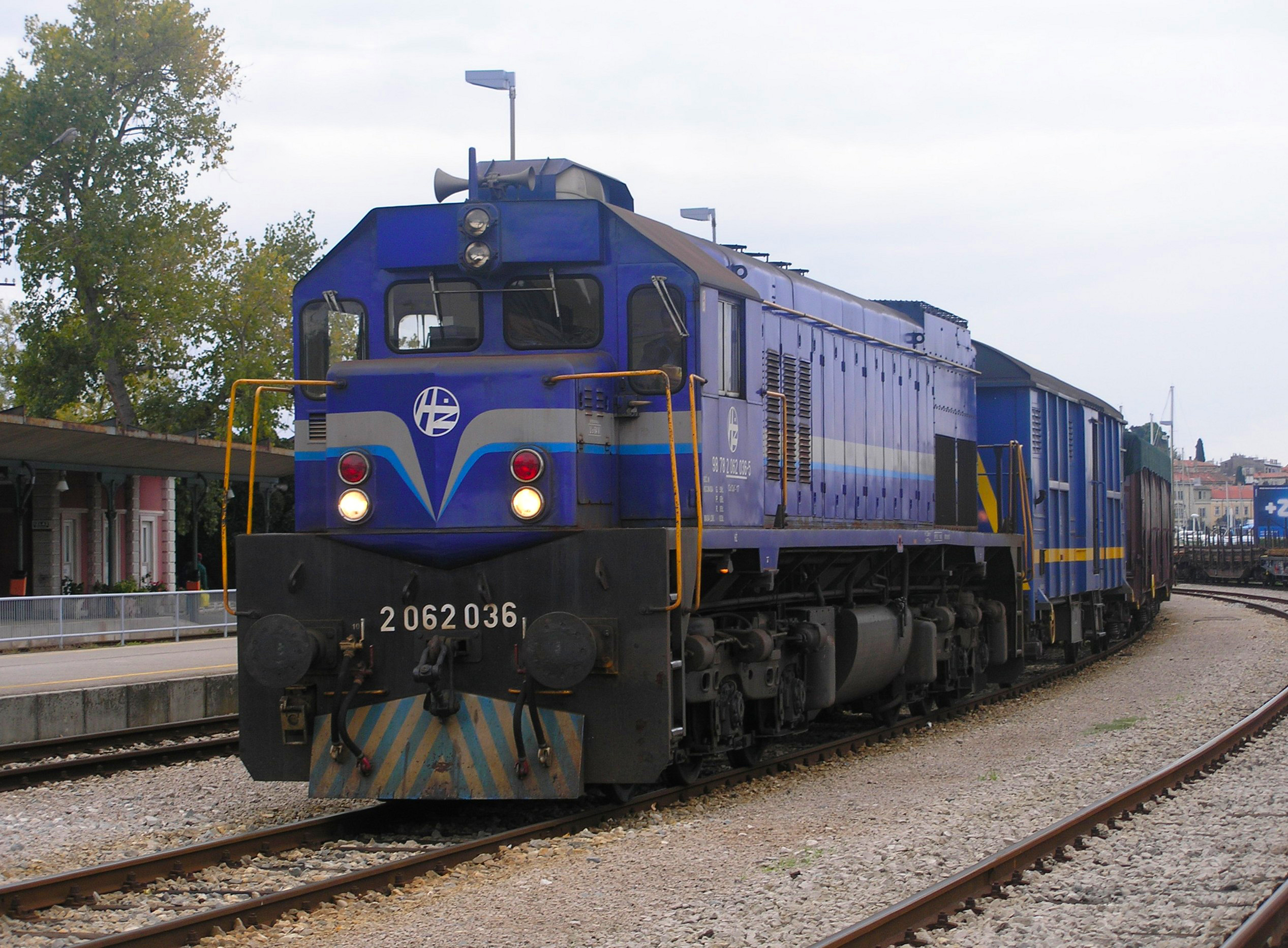 Croatian series 2062 diesel locomotive (EMD G26) in Pula railway station, Croatia